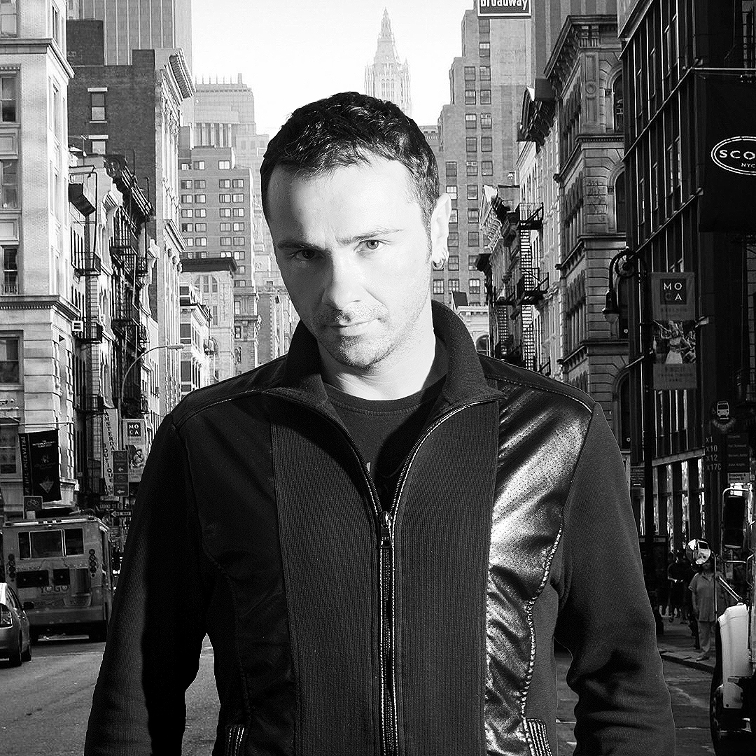 cover photo for official website (